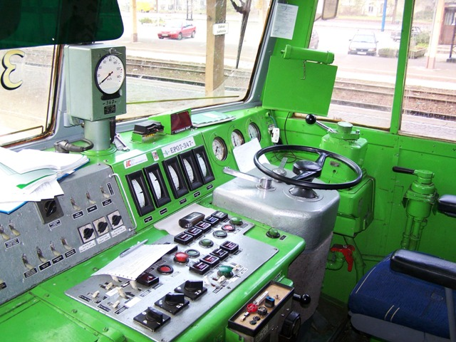 Pulpit maszynisty w EP07